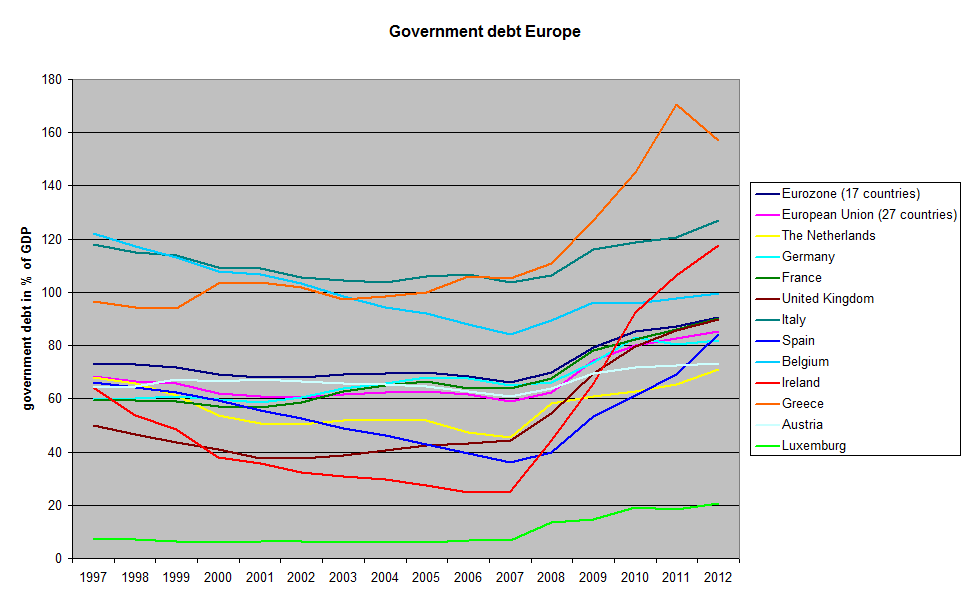 Government debt (as a % of GDP) in a number of Europea countries, plus the Eurozone, plus the EU. Source: Eurostat, table teina225.